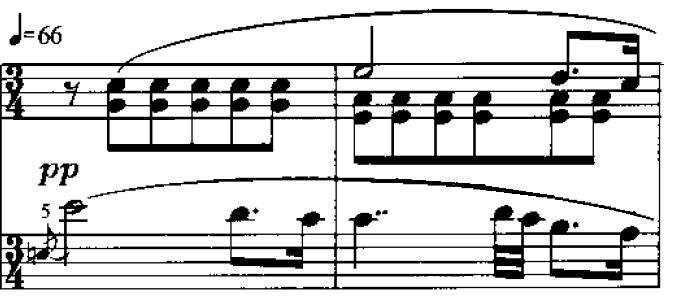 Excerpt from the Étude Op. 25 No. 7 by Fryderyk Chopin.